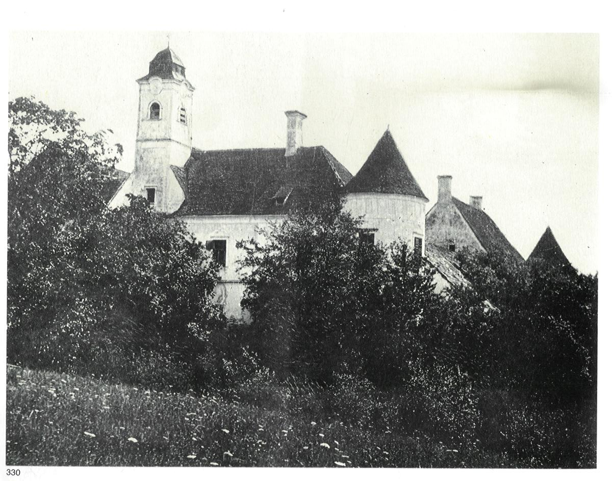 Novi Dvori Cesargradski (now Novi Dvori Klanječki) 1939